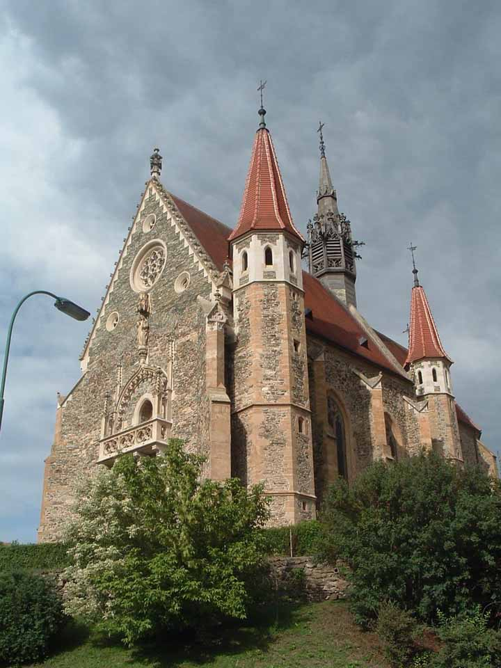 The gothic church of Mariasdorf (14th c.), Burgenland, Austria